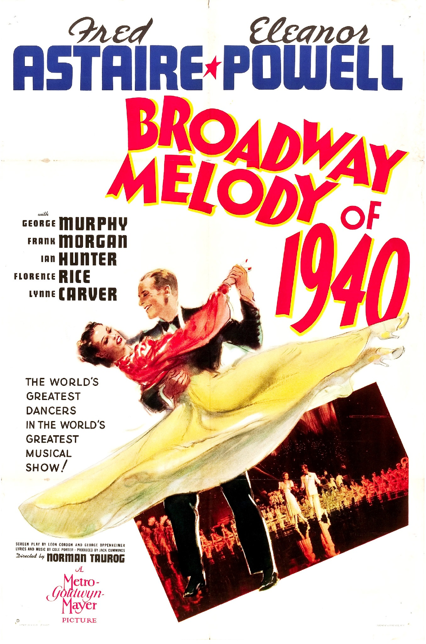 Poster for the 1940 film Broadway Melody of 1940. There are no copyright marks. At bottom left is "D" (poster version "D"), Litho in USA and #4427. At bottom right is Tooker Litho Co., NY.-they printed the poster.